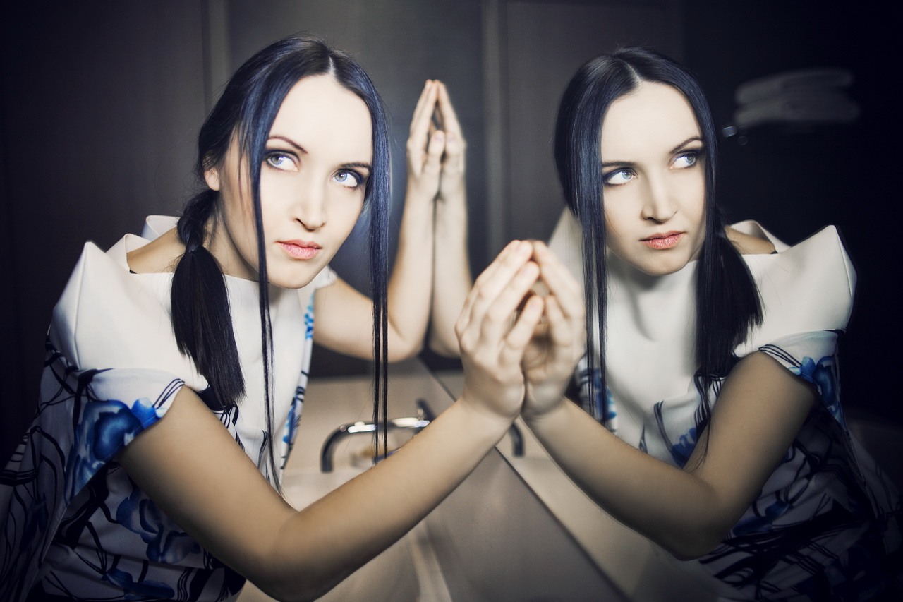 Tinkara Kovač